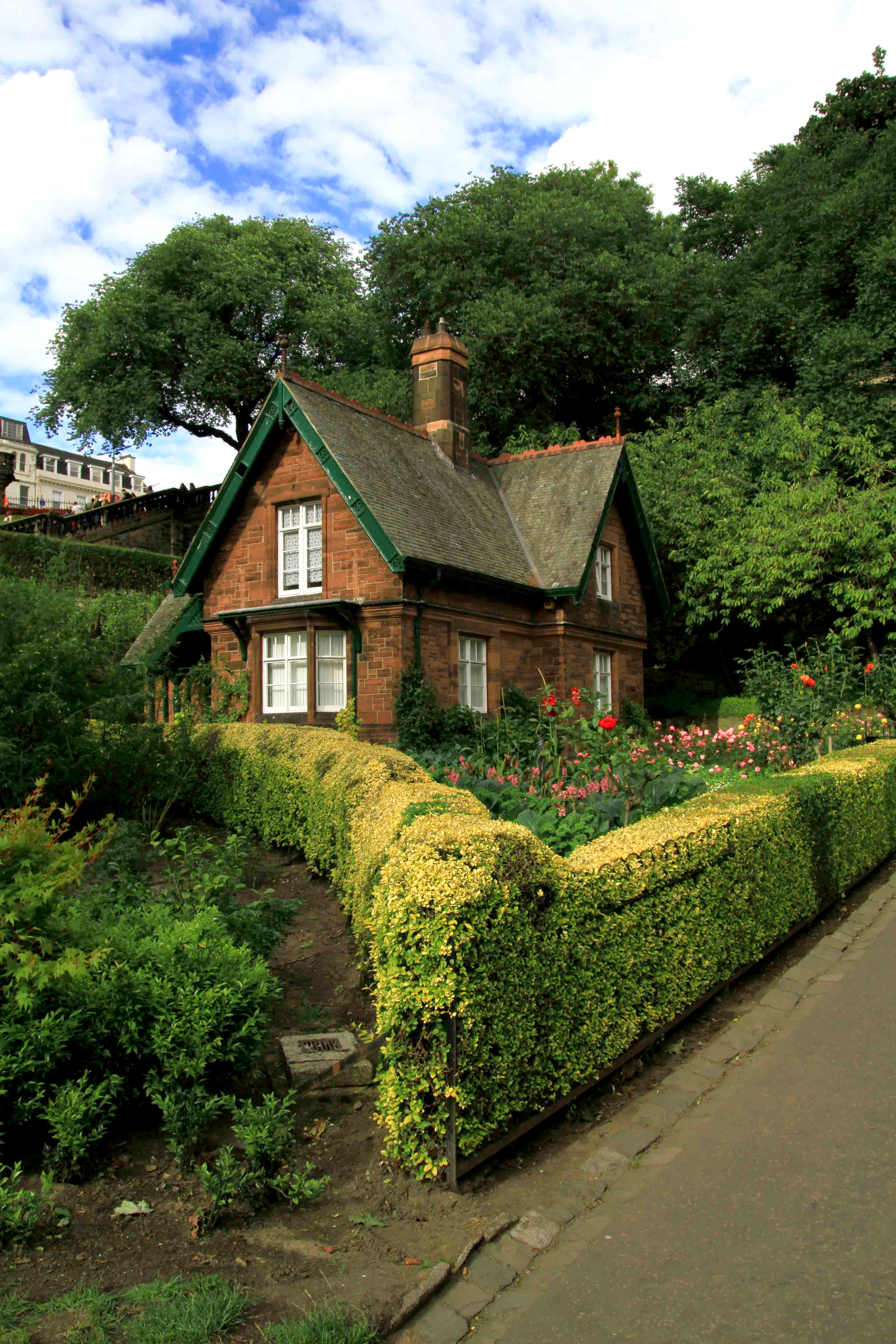 Head Gardener's Cottage, West Princes Street Gardens, Edinburgh